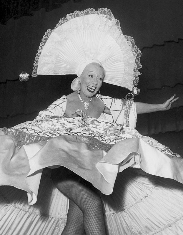 Wanda Osiris, born Anna Menzio attrice, Italian singer and soubrette of the revue since the '30s, performs in the Teatro Sistina of Rome in the show Il Diavolo custode by wearing one of her hyperbolic costumes. Rome (Italy), 1952.